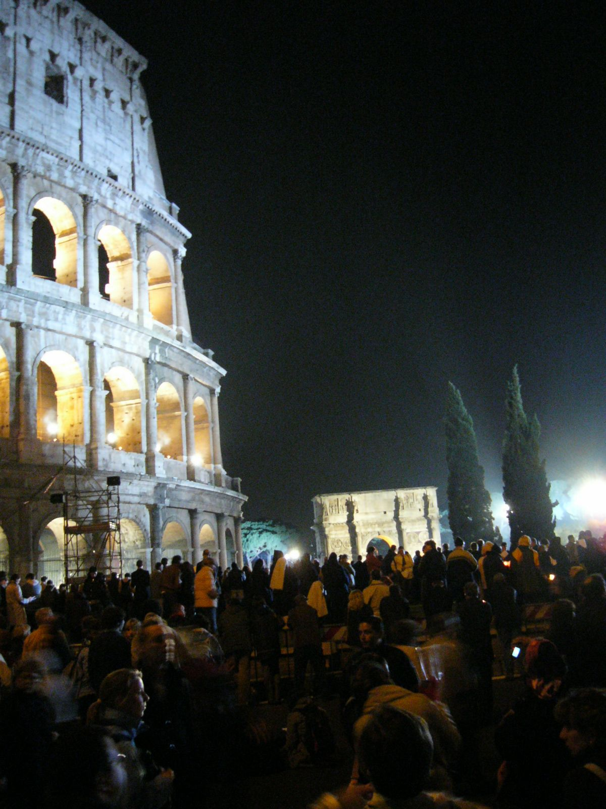 Cross way in Good Friday 2007 year Colloseum and Constantin's Arca, Rome